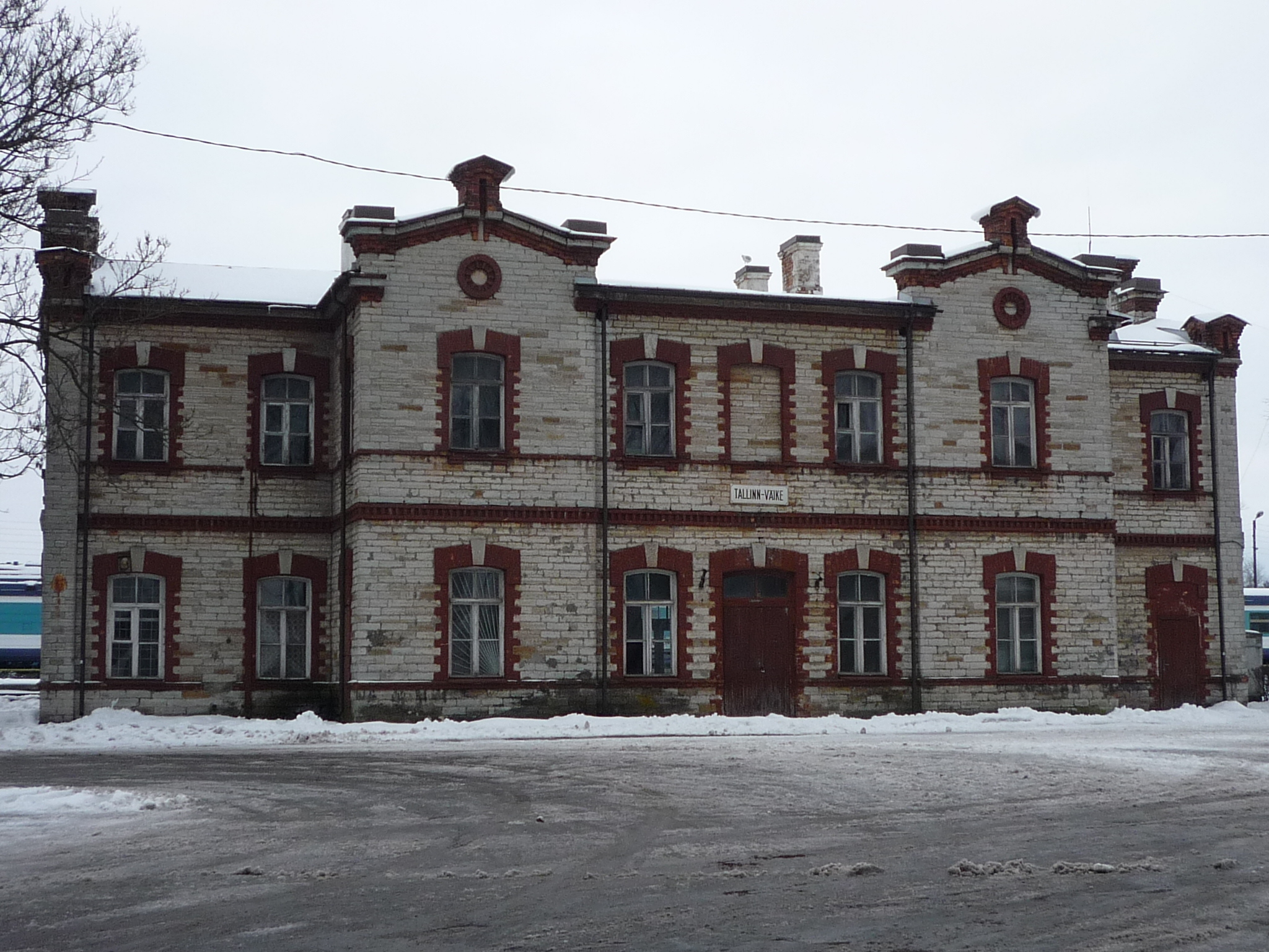 Railway station Tallinn-Väike. View from Juurdeveo street. Tallinn, Estonia.